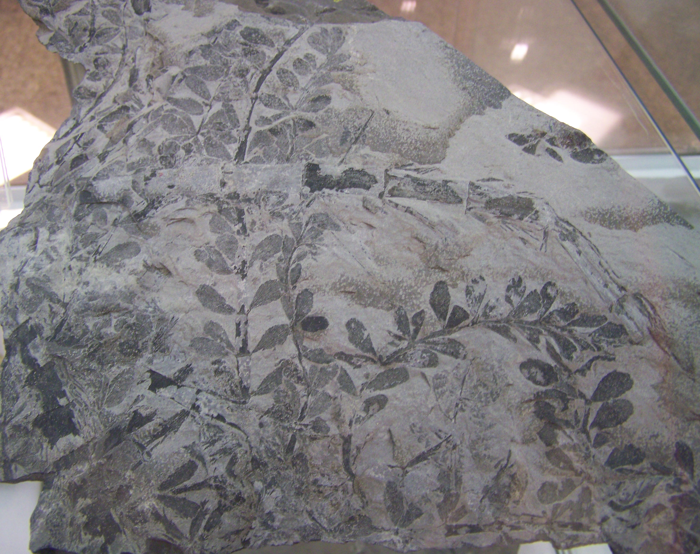 Fossil leaves and branches of the species Sphenophyllum miravallis, Upper-Carboniferous. Collection of the Universiteit Utrecht